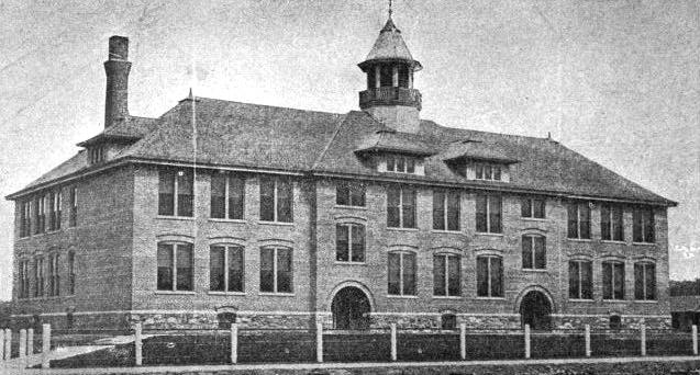 Central School (c. 1909) — Iron River, Michigan.